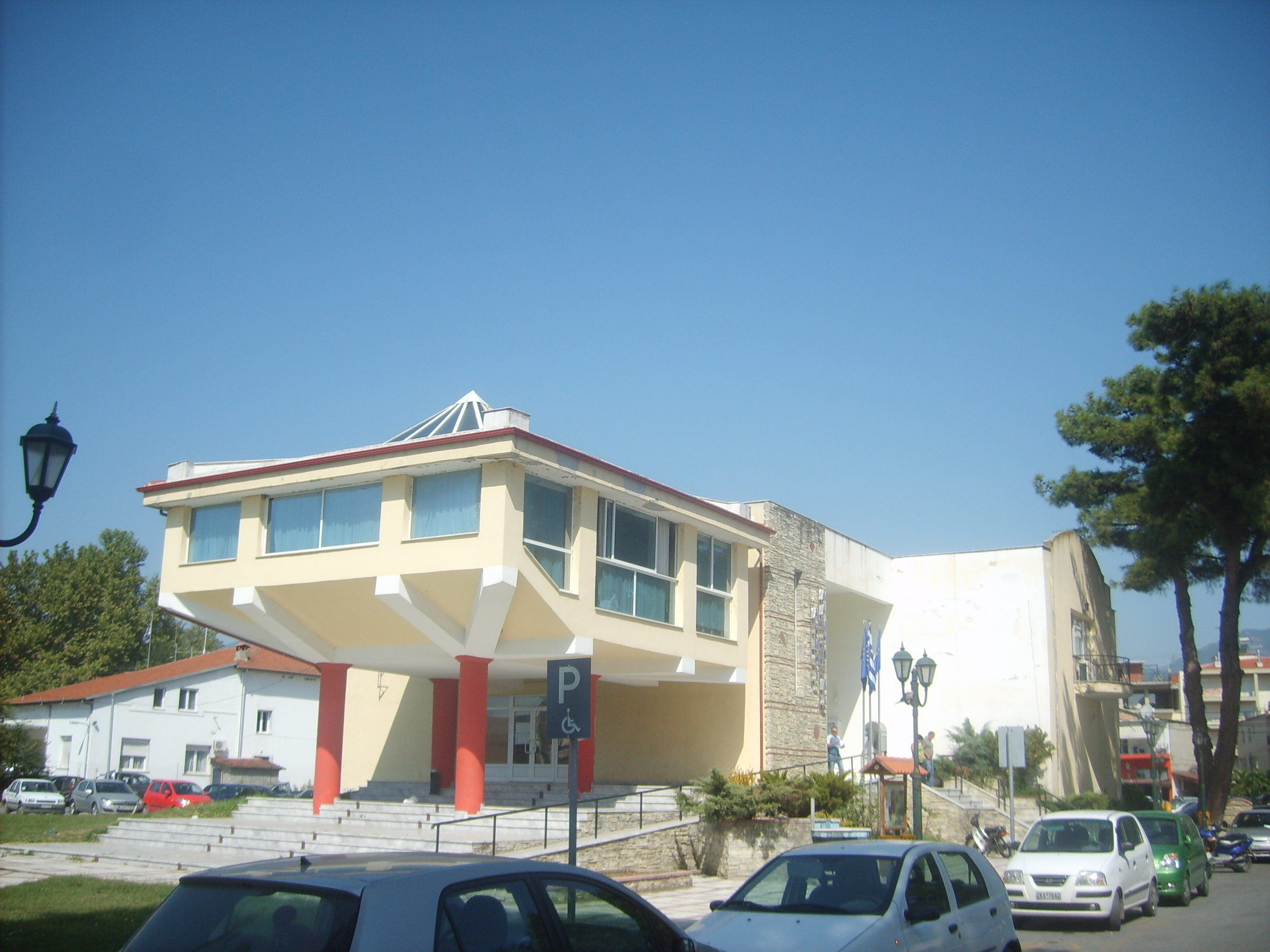 New townhall in Aridea, Almopia, Greece